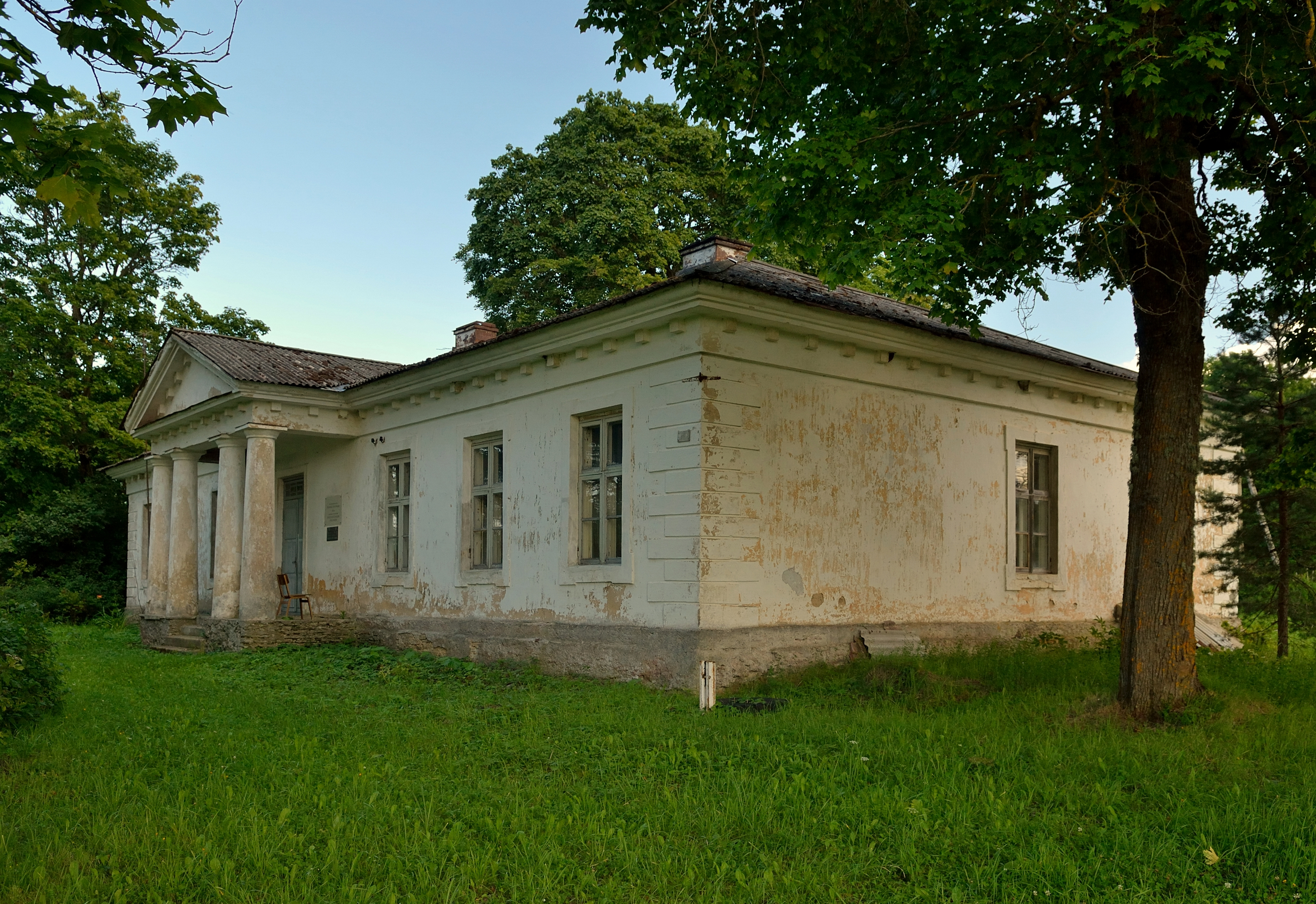 Pikaristi post station main building